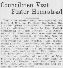 a 1914 newspaper article concerning Marion Foster and her involvement in preserving the museum of Stephen Foster